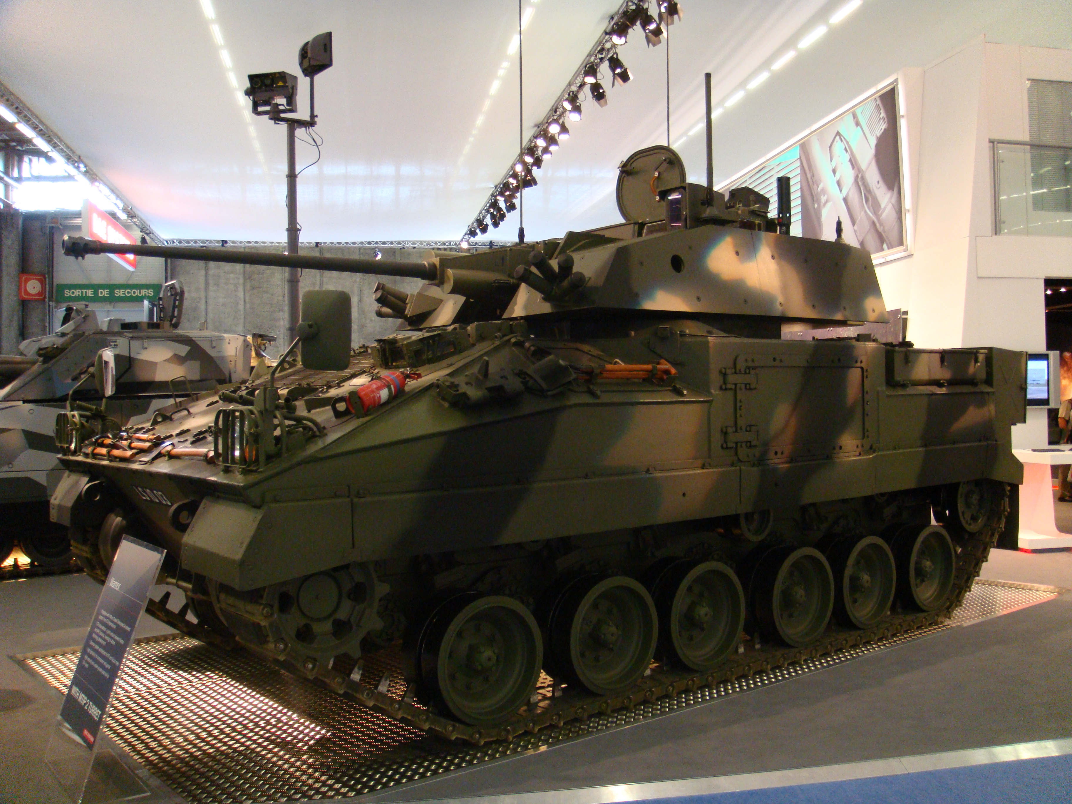 A British BAE Systems "Warrior" tracked armoured vehicle with a MTIP 2 turret.